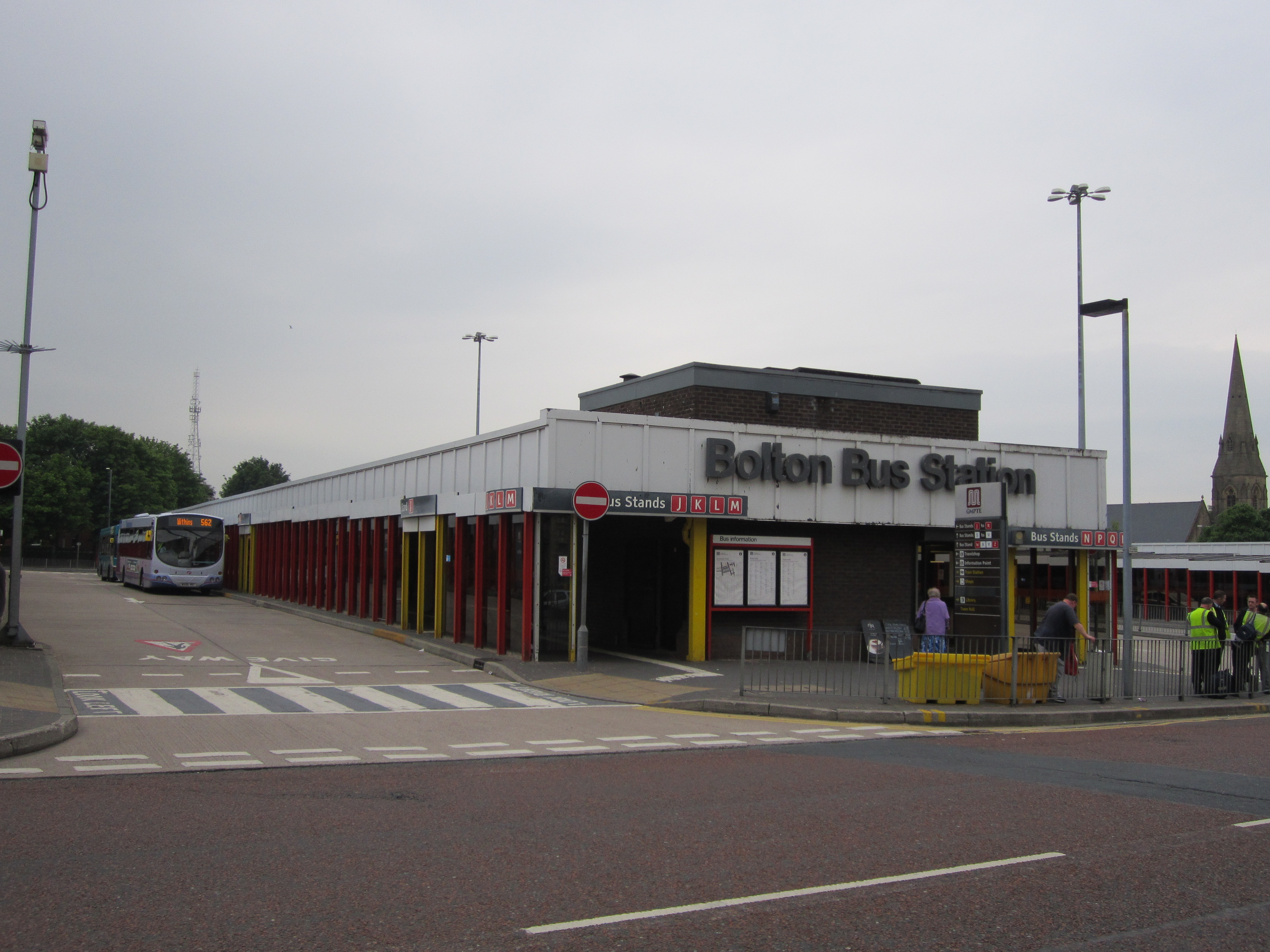 Photo taken at Bolton Bus Station, Greater Manchester, England.